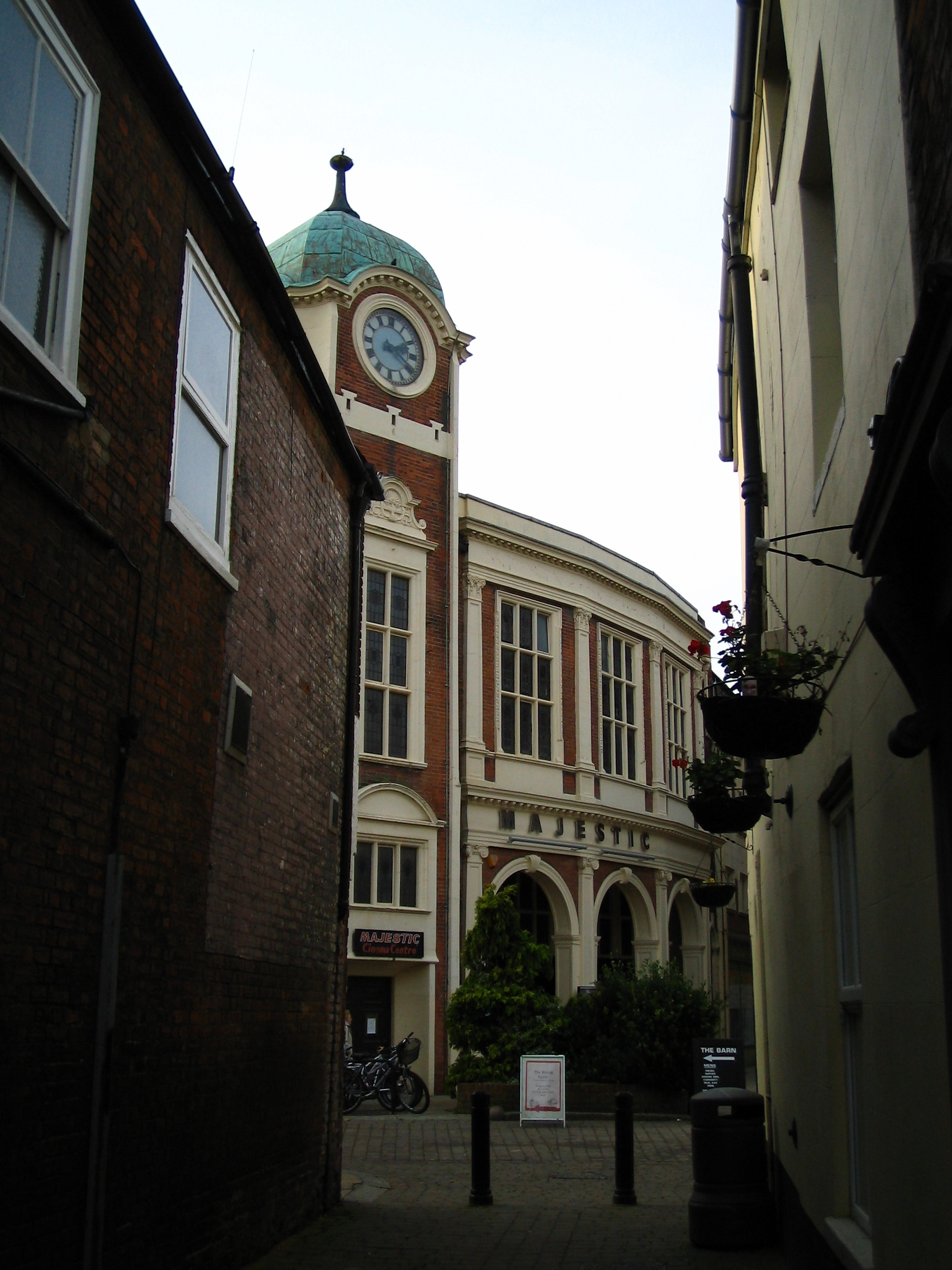 The Majestic Cinema in King's Lynn. The photograph was taken by myself (Ben Dickson) on November 14th 2005 with a Canon iXus i Digital Camera.